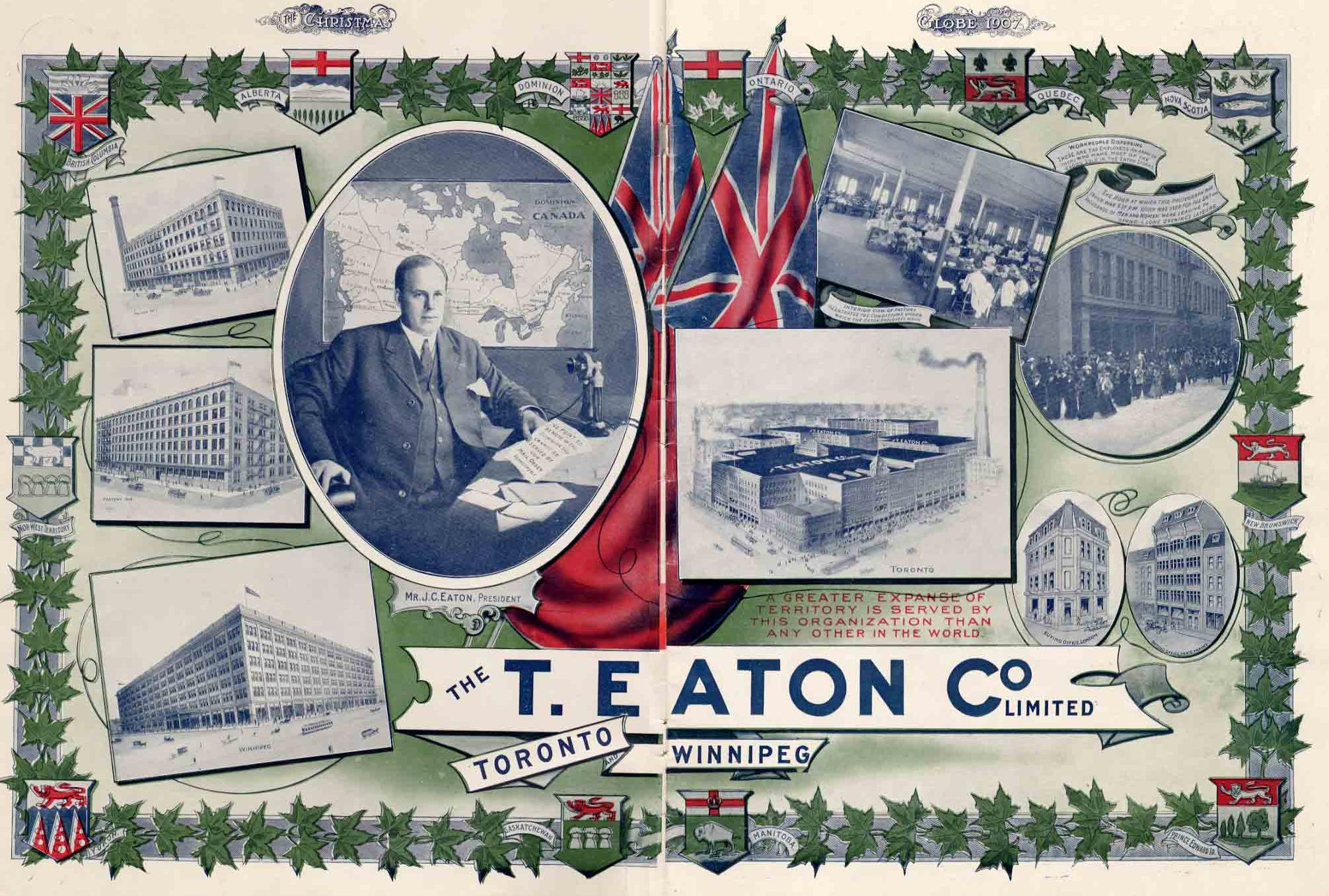 Advertisement in the Christmas edition of the Globe newspaper for the Eaton's Department Store in Canada.